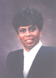 Pic of Fl Supreme Court Member Peggy Quince